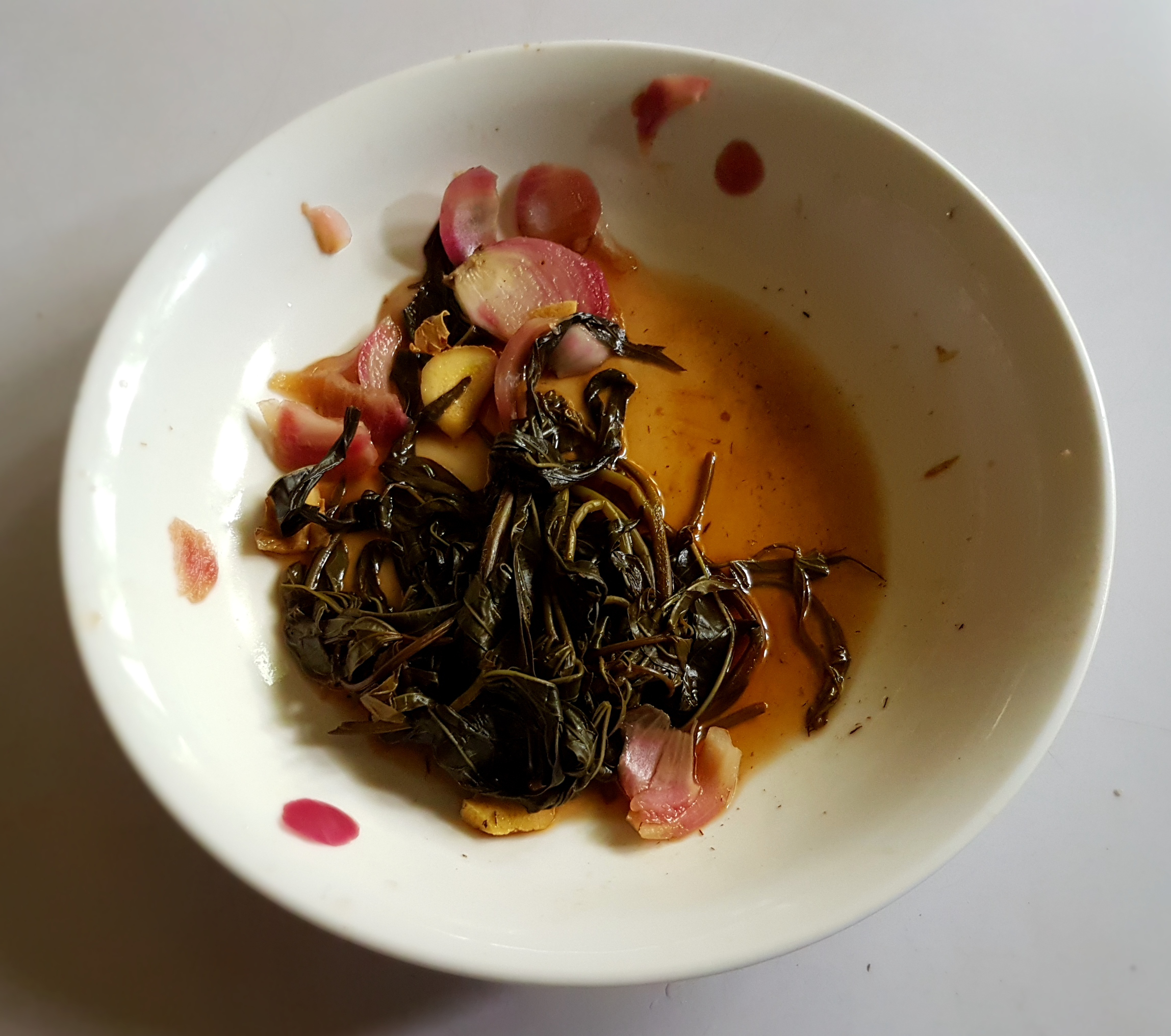 Camote tops (talbos ng kamote) salad from the Philippines, made from young sweet potato leaves. It is a type of kinilaw.